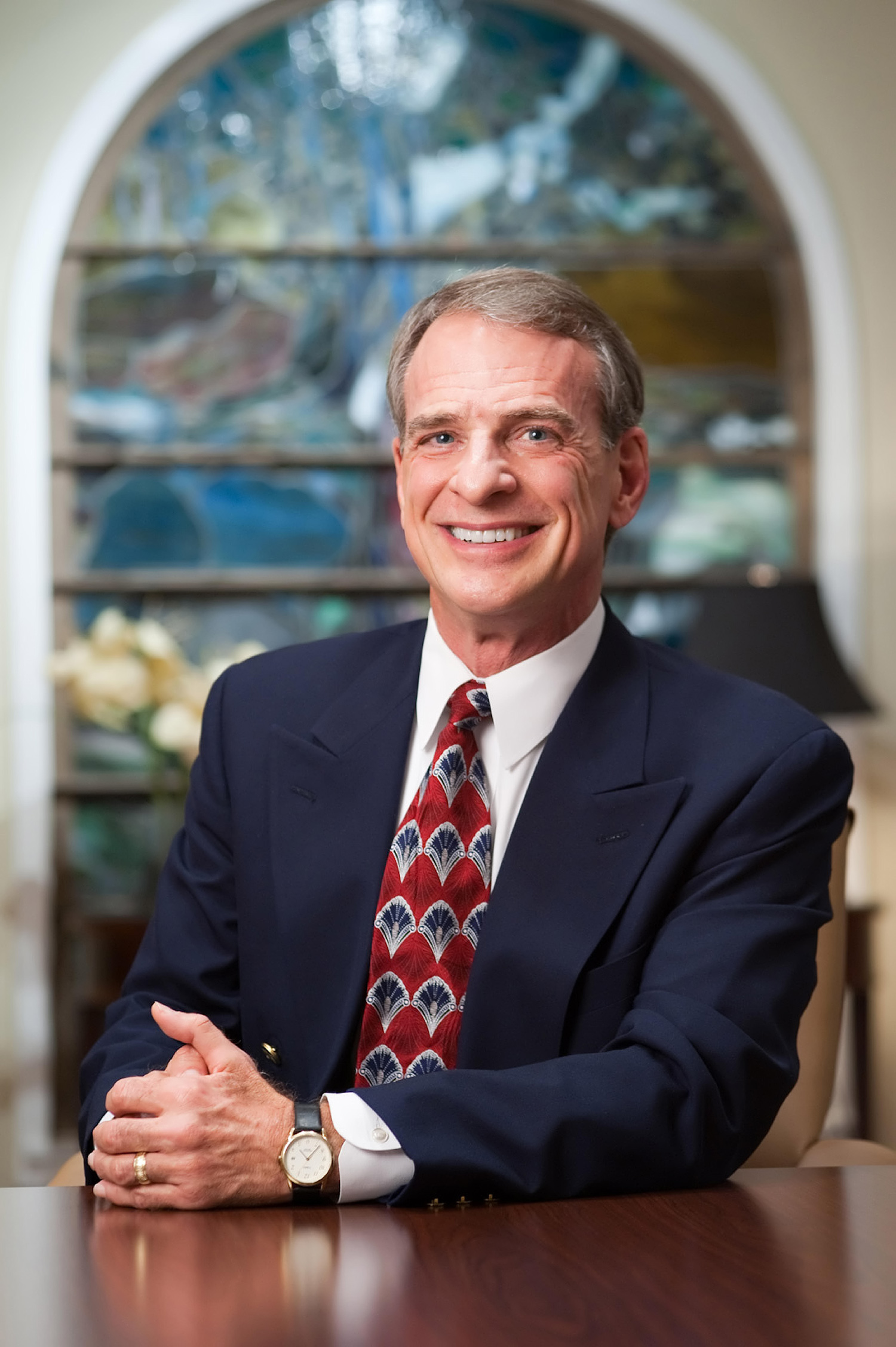 Official Press Release Photo